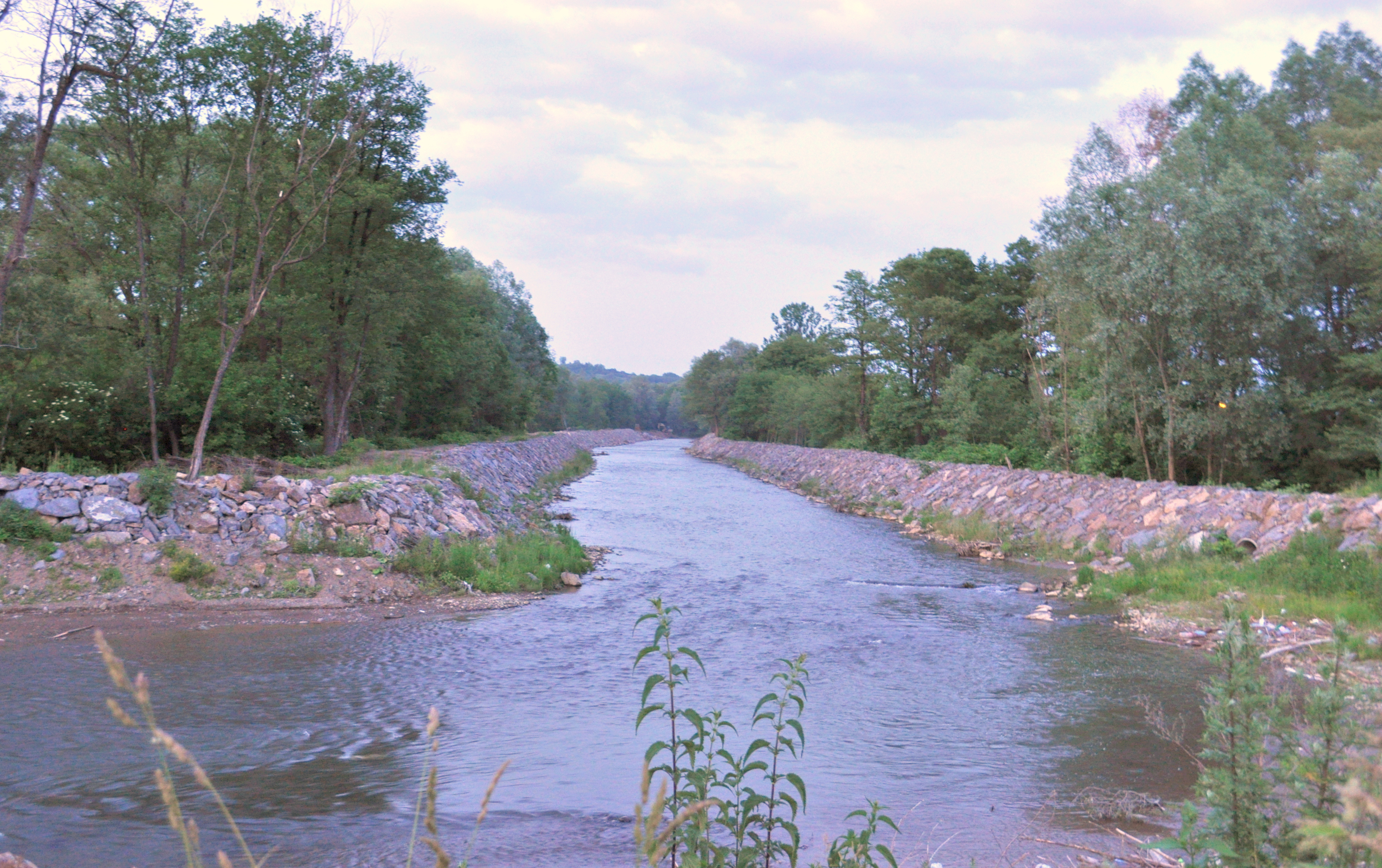 Lăpuș river in the isolated village Preluca Nouă, Maramureș county, Romania